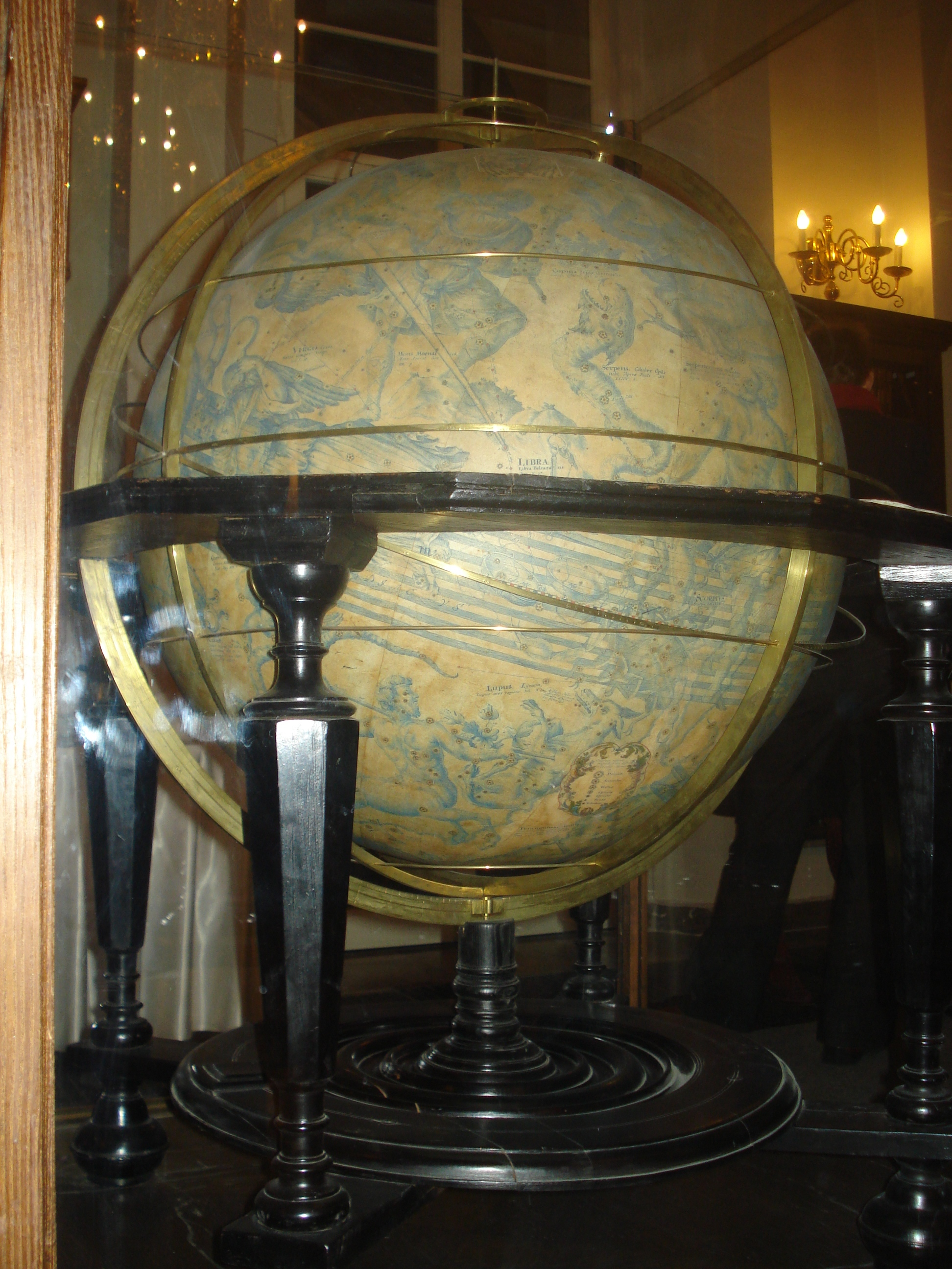 Celestial globe (Elbinge, Poland; 1750) by Jan Fryderyk Enderschas (1705-1769), cartographer, mechanic, and royal mathematician. Dedicated to Augustus III (1696-1763), King of Poland and Grand Duke of Lithuania. White hall of the Vilnius university library